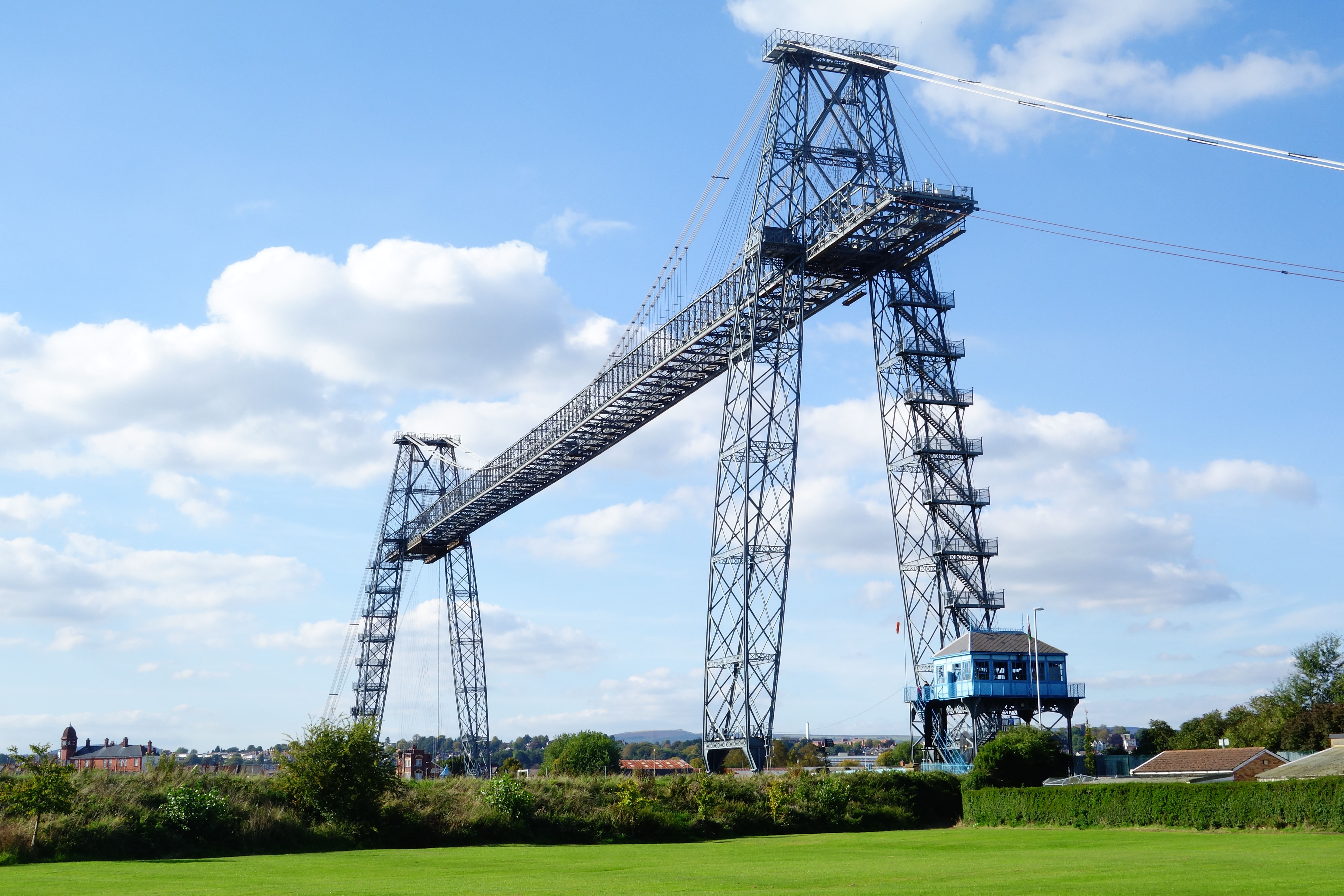 The Transporter Bridge, seen from Coronation Park on the annual Fun Day in September 2015.